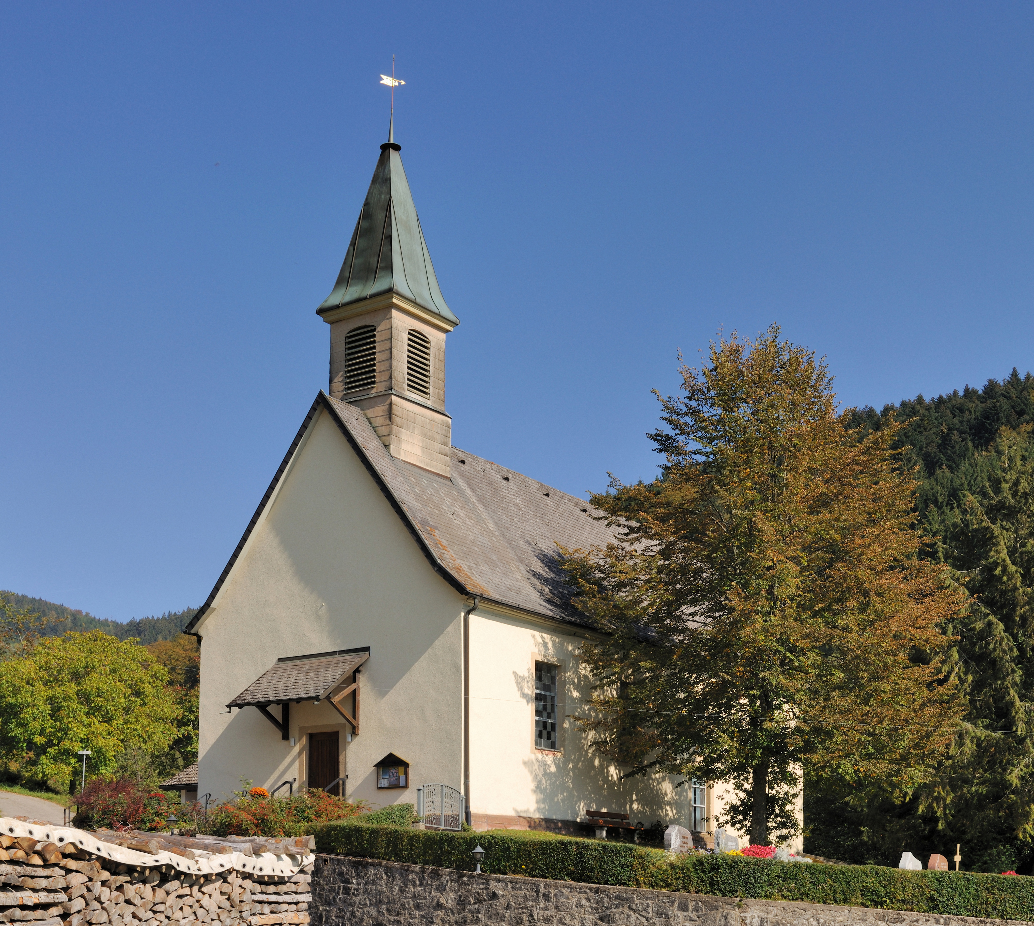 Steinen-Endenburg: Protestant Church